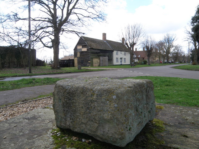 The Leighton Stone. A stone with historical and religious relevance to Leighton Bromswold. Read the sign here 1193786